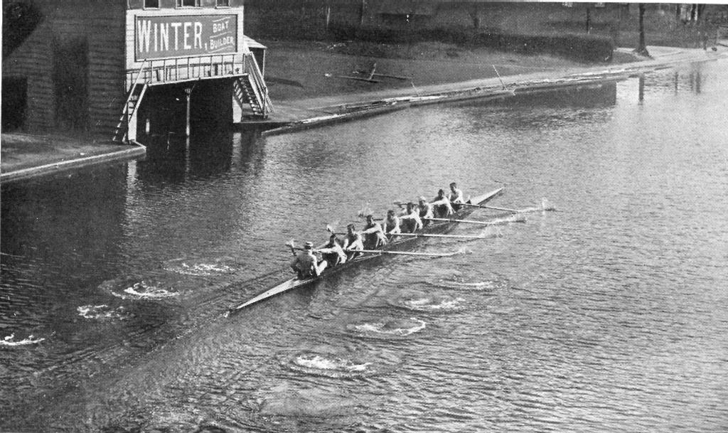 Cambridge University Boat Club practicing - B&W photo - 1899